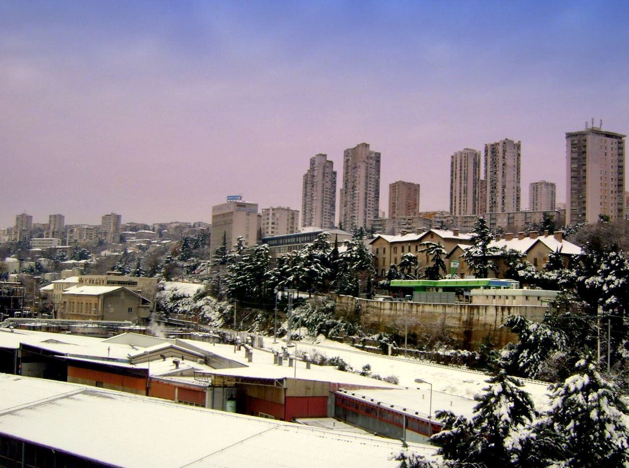 Rijeka - Snow per day ( 18. 12. 2010 )